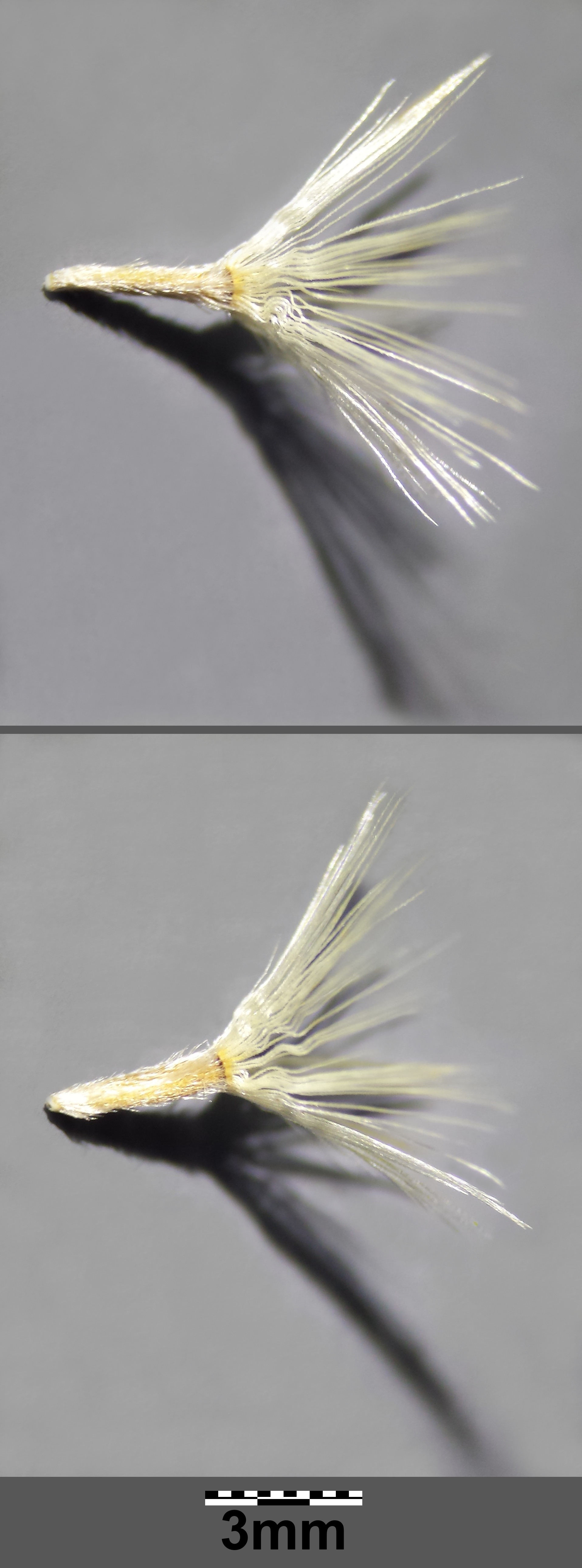 Achenes with pappus Taxonym: Galatella linosyris (ss Fischer et al. EfÖLS 2008 ISBN 978-3-85474-187-9) Location: Wartberg near Ulrichskirchen, district Mistelbach, Lower Austria - ca. 240 m a.s.l. (leg.: 2015-11-08) Habitat: semi-dry grassland